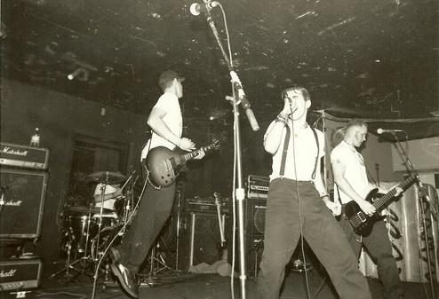 This photo was taken by my cousin when AFI were playing a show at the Berkeley Square on November 10, 1995 in support of "Answer That and Stay Fashionable." It is a scan of the actual photo, which was never copyrighted.